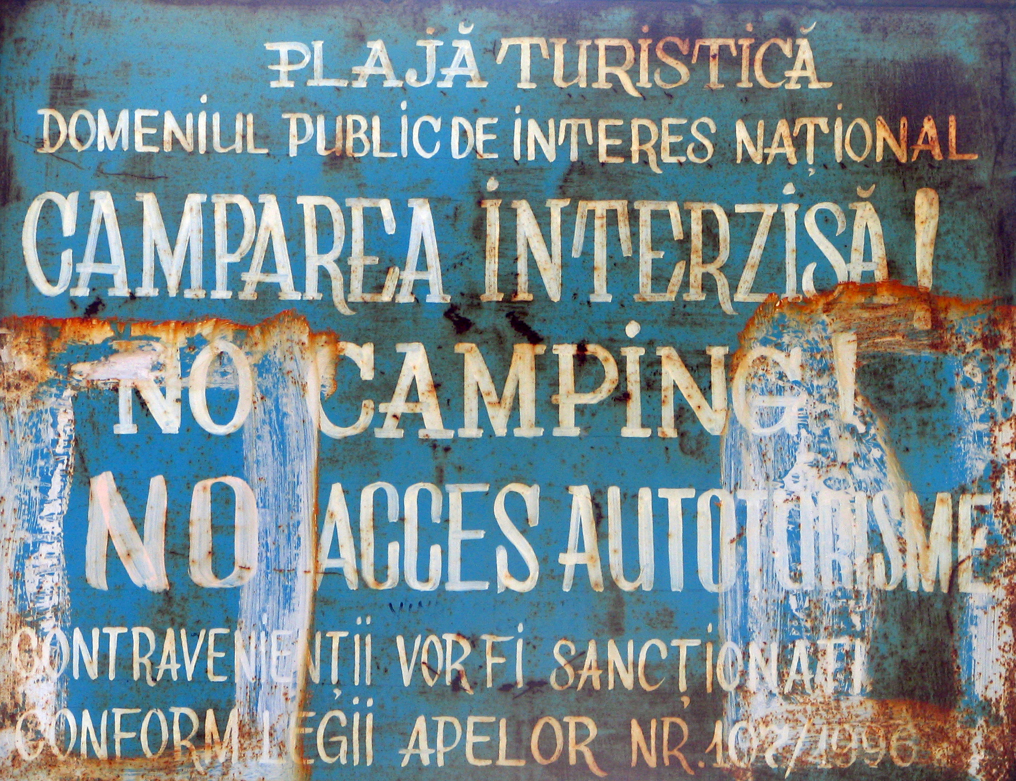 PLAJĂ TURISTICĂ DOMENIUL PUBLIC DE INTERES NAŢIONAL CAMPAREA INTERZISĂ! NO CAMPING! NO ACCESS AUTOTURISME! CONTRAVENIENŢII VOR FI SANCŢIONAŢI CONFORM LEGII APELOR NR.107/1996